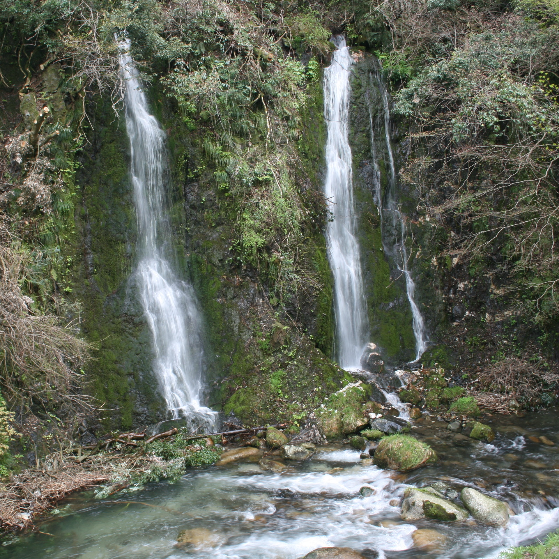 Meoto Falls of Hisaka River (Ibi River)